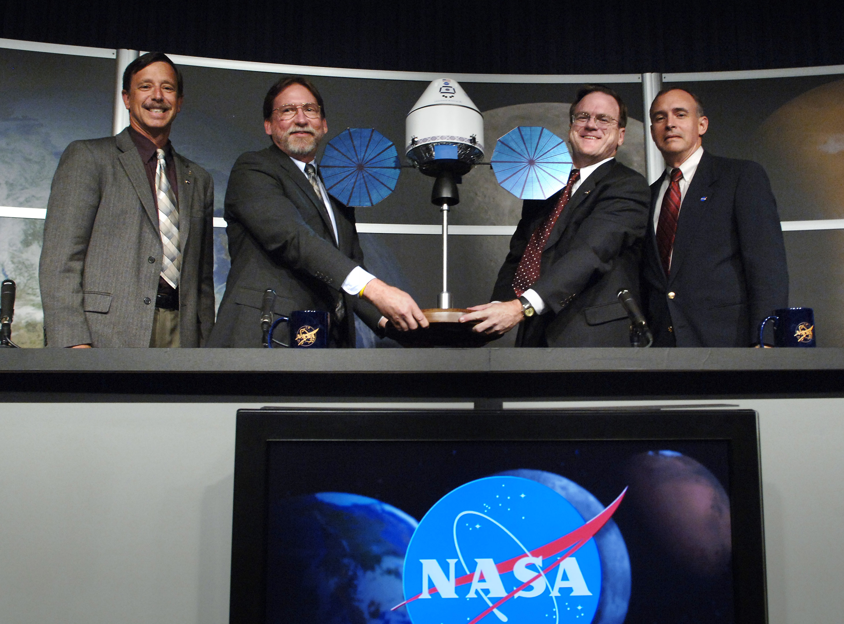 Left to Right: NASA Associate Administrator for the Exploration Systems Directorate Scott Horowitz, NASA Deputy Associate Administrator for the Exploration Systems Mission Directorate Doug Cooke, NASA Crew Exploration Vehicle (CEV) Project Office Manager Chris Hatfield and NASA Constellation Program Manager Jeff Hanley hold a model of the Orion vehicle during a press conference at NASA Headquarters in Washington.